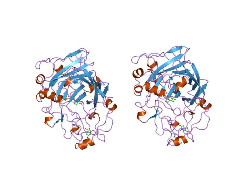 Cartoon representation of the molecular structure of protein registered with 4ovw code.